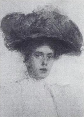 Portrait of Rose Standish Nichols, by Taylor Greer. Watercolor.